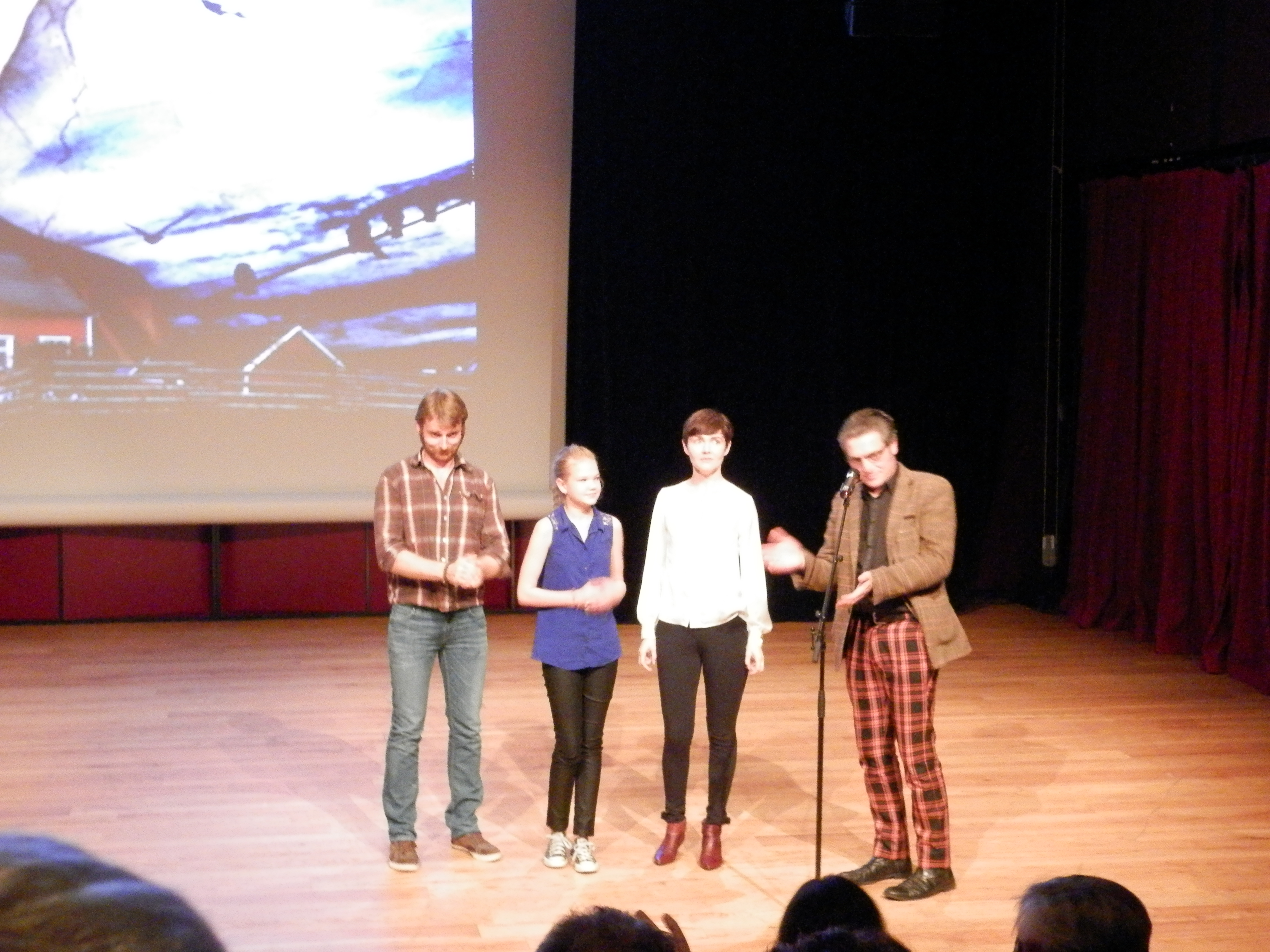 Ludo is a film by Katrin Ottarsdóttir. It was showed for the first time on 11 September 2014 in her hometown Tórshavn, Faroe Islands. The film is a psycolocal thriller. This photo was taken at the premiere. On this photo are the three main actors Hjálmar Dam, Lea Blaaberg and Hildigunn Eyðfinsdóttir (Katrin Ottarsdóttir's daughter) and Hugin Eide, the producer of the film and Ottarsdóttir's husband.